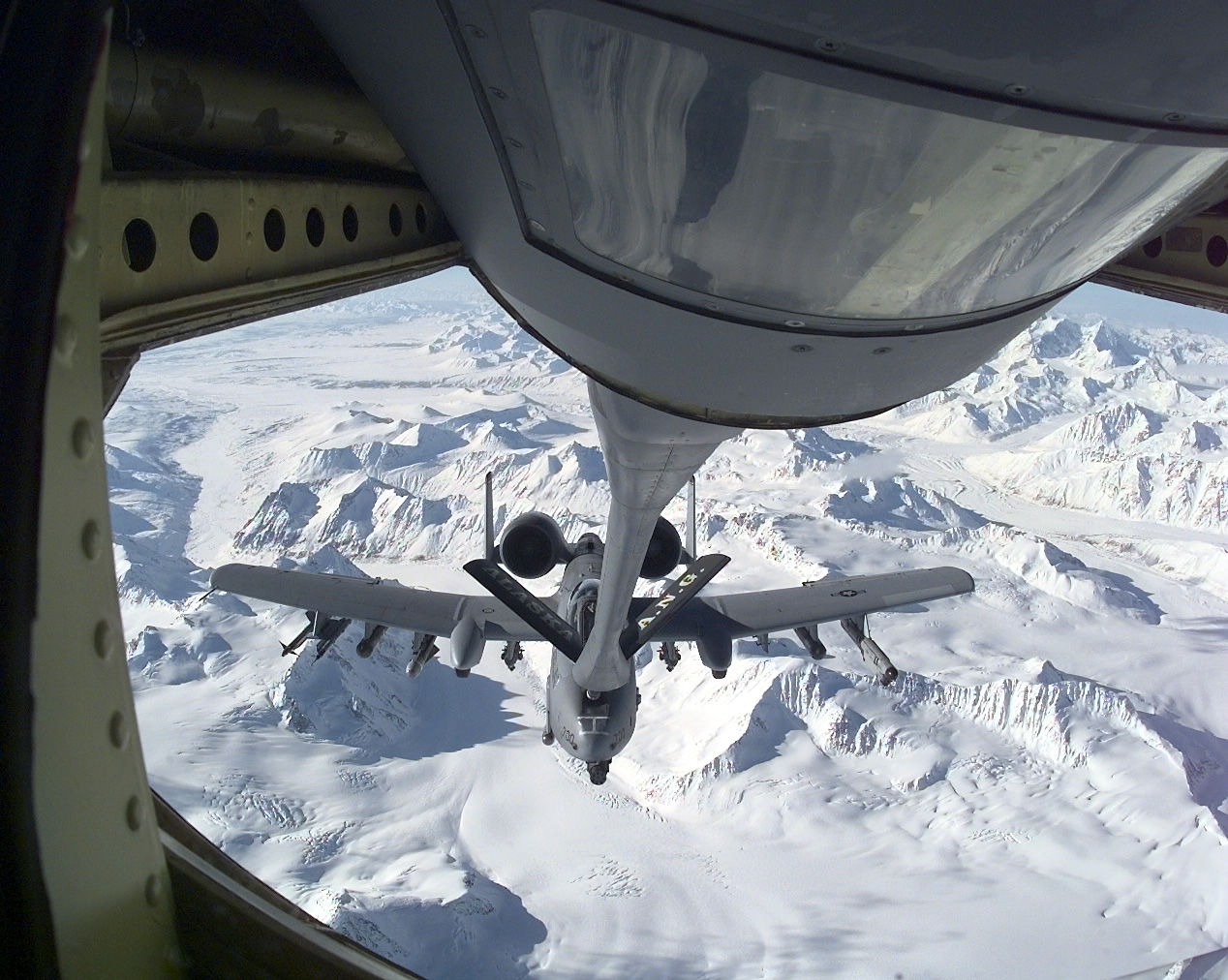 An A/OA-10 Thunderbolt II is refueled by a KC-135R Stratotanker during Exercise Northern Edge '99 on March 9, 1999.